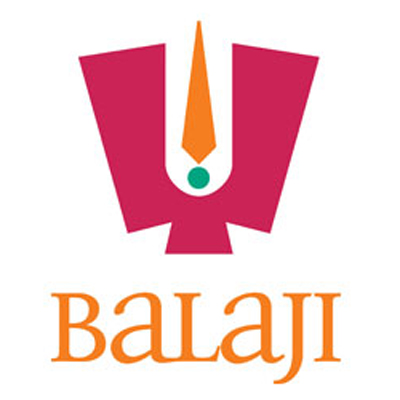 Balaji Telefilms logo